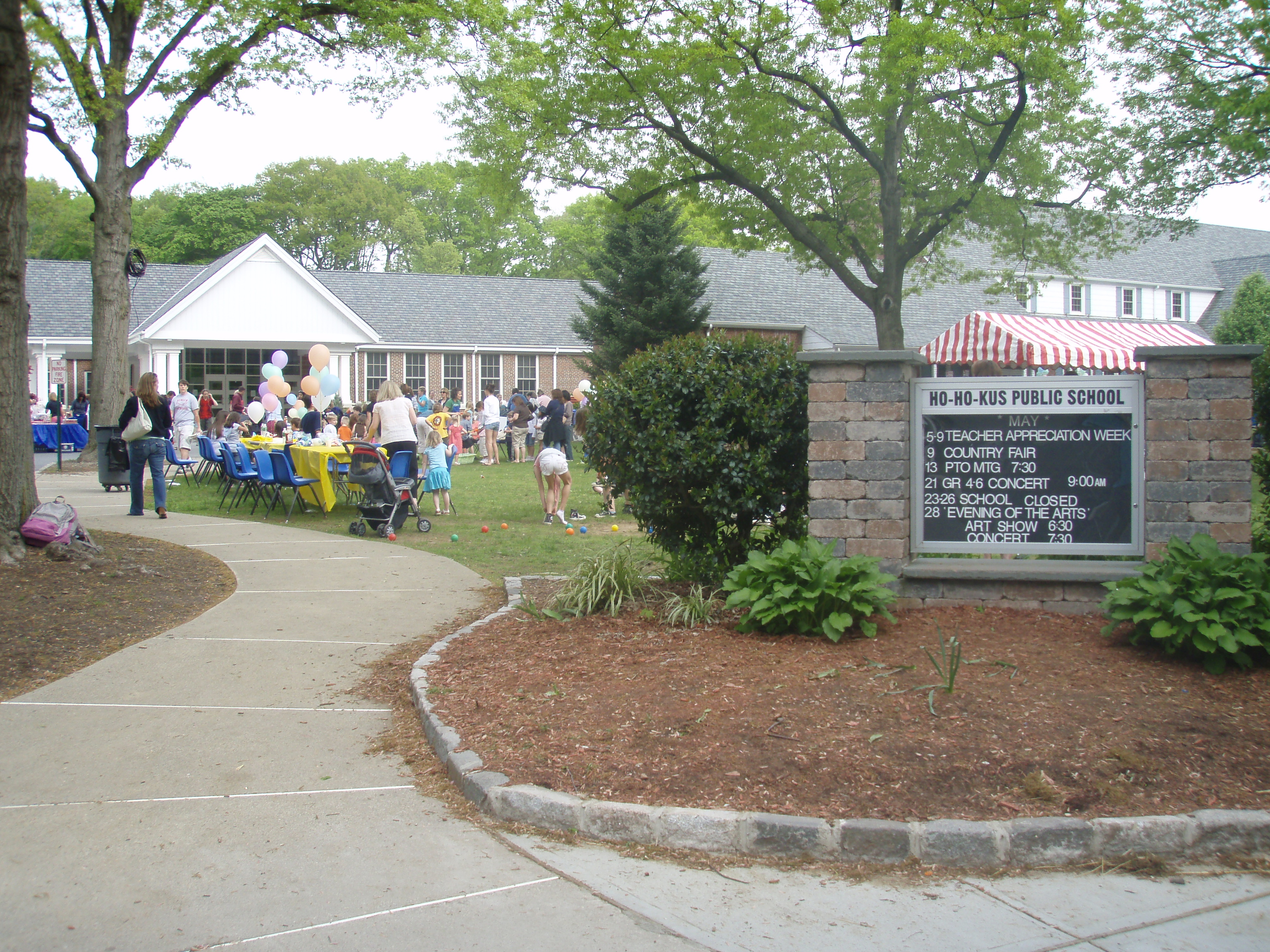 Ho-Ho-Kus Public School, Ho-Ho-Kus, New Jersey, during the country fair